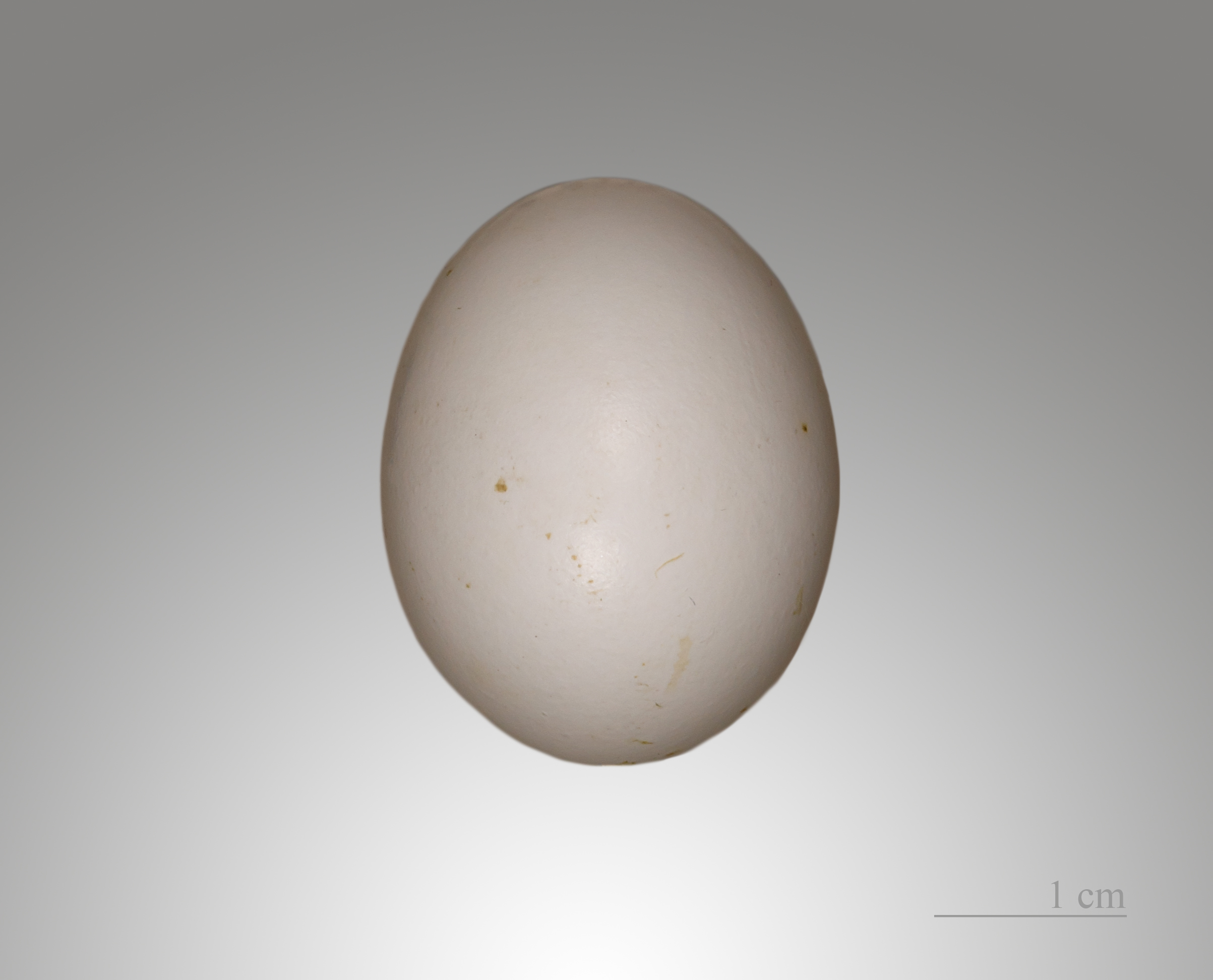 Egg of African Collared Dove. Collection Jacques Perrin de Brichambaut.